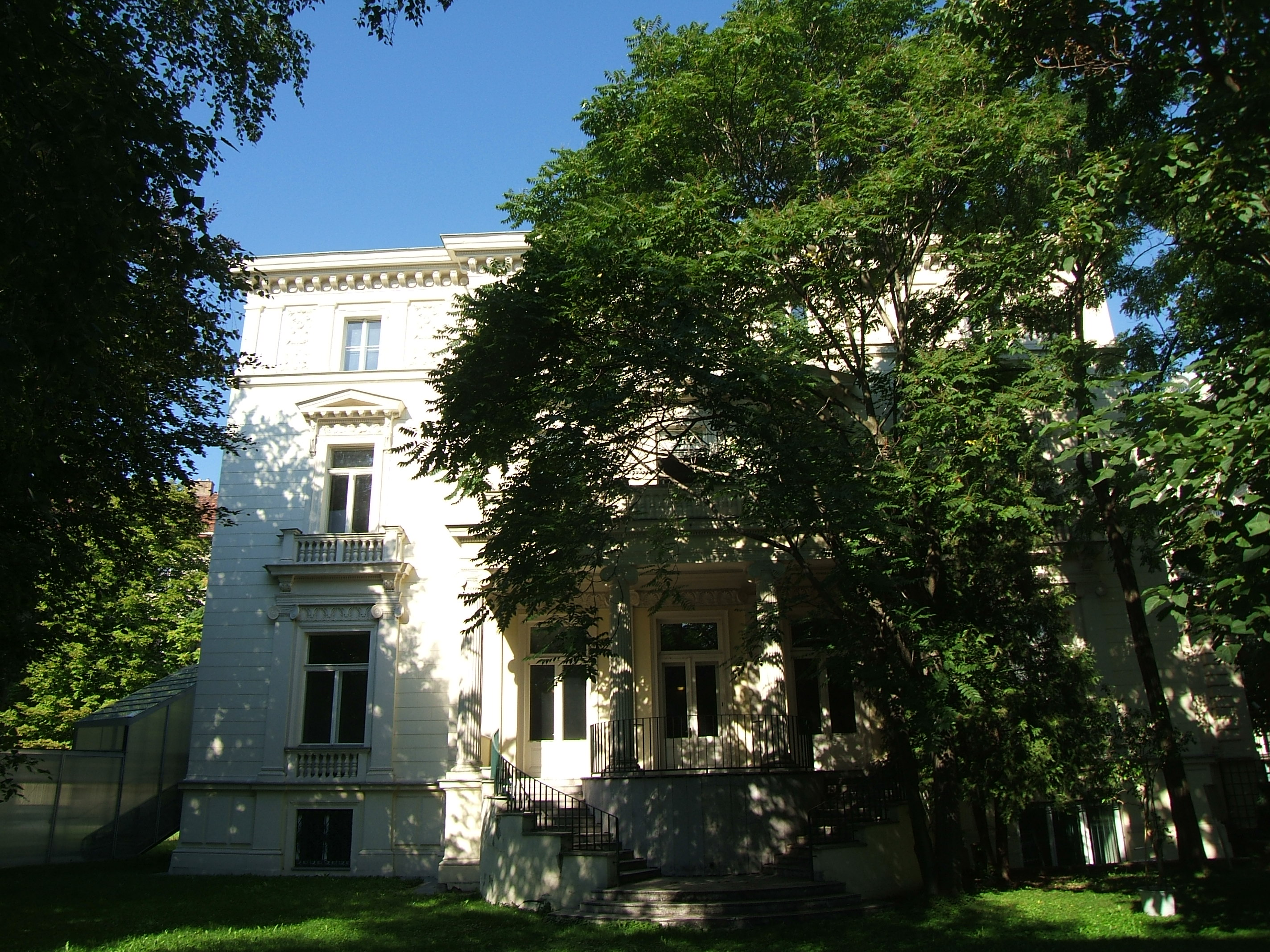 Palais Württemberg in Vienna 9th district Strudelhofgasse 10, former embassy of Qatar